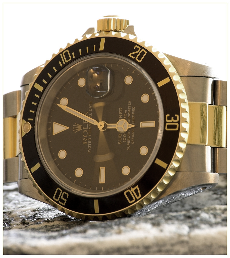 Rolex 6613 Submariner